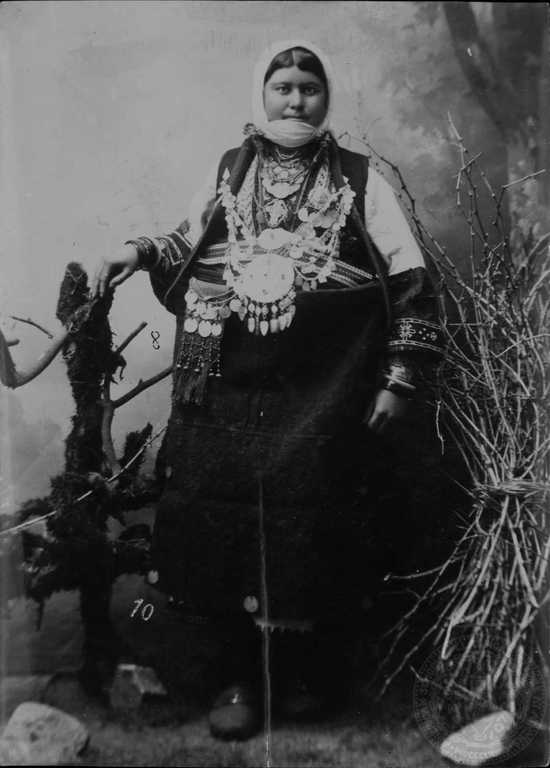 Women from Bukovo or Brusnik